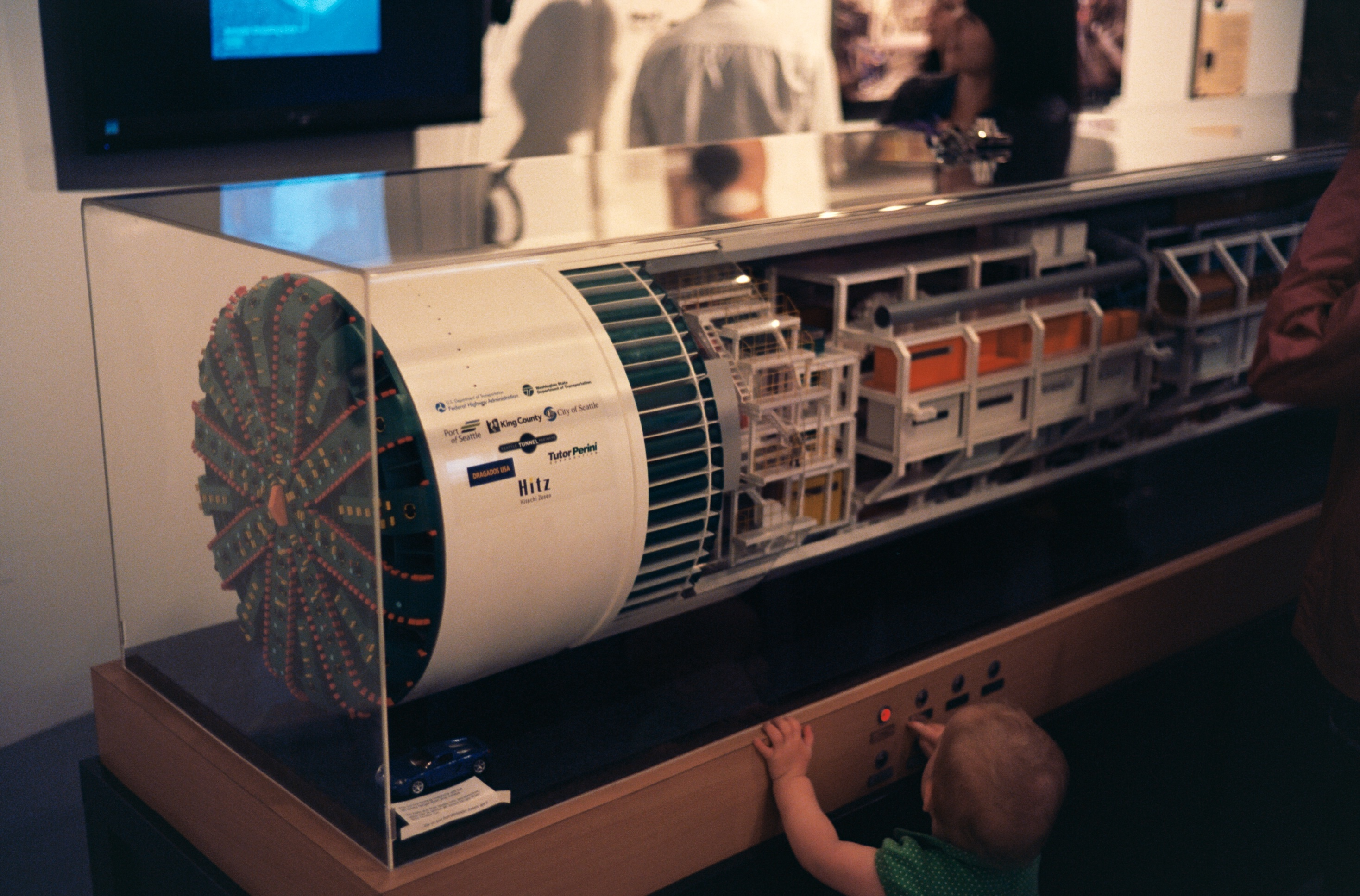 Front of model of tunnel boring machine at Milepost 31, Alaskan Way Viaduct replacement tunnel information center, 211 First Ave. S., Seattle, Washington.